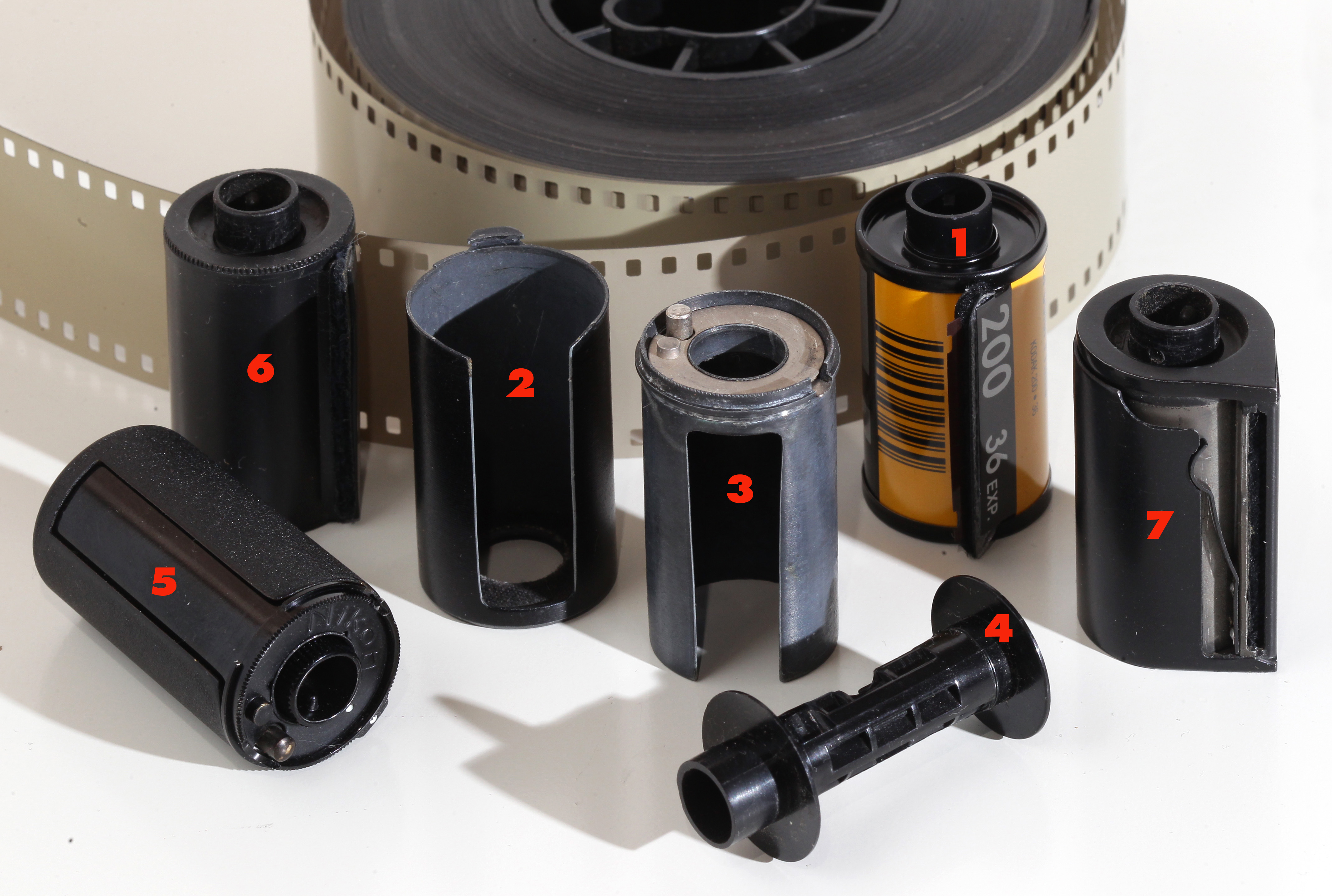 Different types of 35-mm still camera film cassette. 1 -- type-135 cassette; 2 -- labirintine cassette 'ФКЦ' body for 'Kiev' rangefinder (Contax-type); 3 -- labirintine cassette inside sleeve; 4 -- reel; 5 -- labirintine cassette Nikon F; 6 -- plastic cassette; 7 -- collapsible 'Krasnogorsk' cassette.